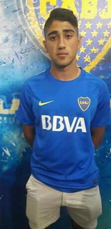 Futbol Player